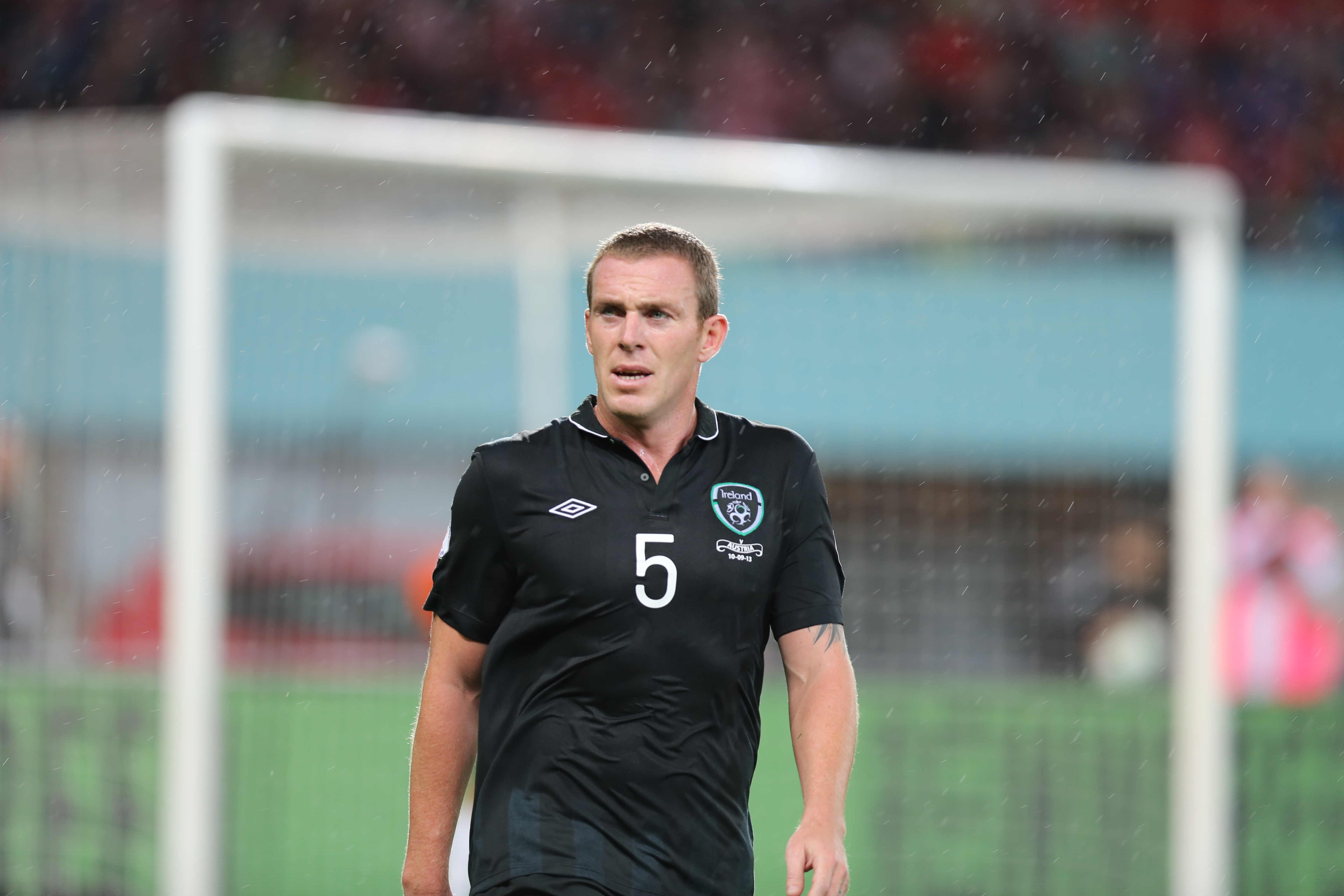 2014 FIFA World Cup qualification (UEFA), Group C: Republic of Ireland national football team at 10. September 2013 before the match against the Austria national football team (0:1) in the Ernst-Happel-Stadion in Vienna. Here: Richard Dunne, irish defender The making of this work was supported by Wikimedia Austria. For other files made with the support of Wikimedia Austria, please see the category Supported by Wikimedia Österreich.